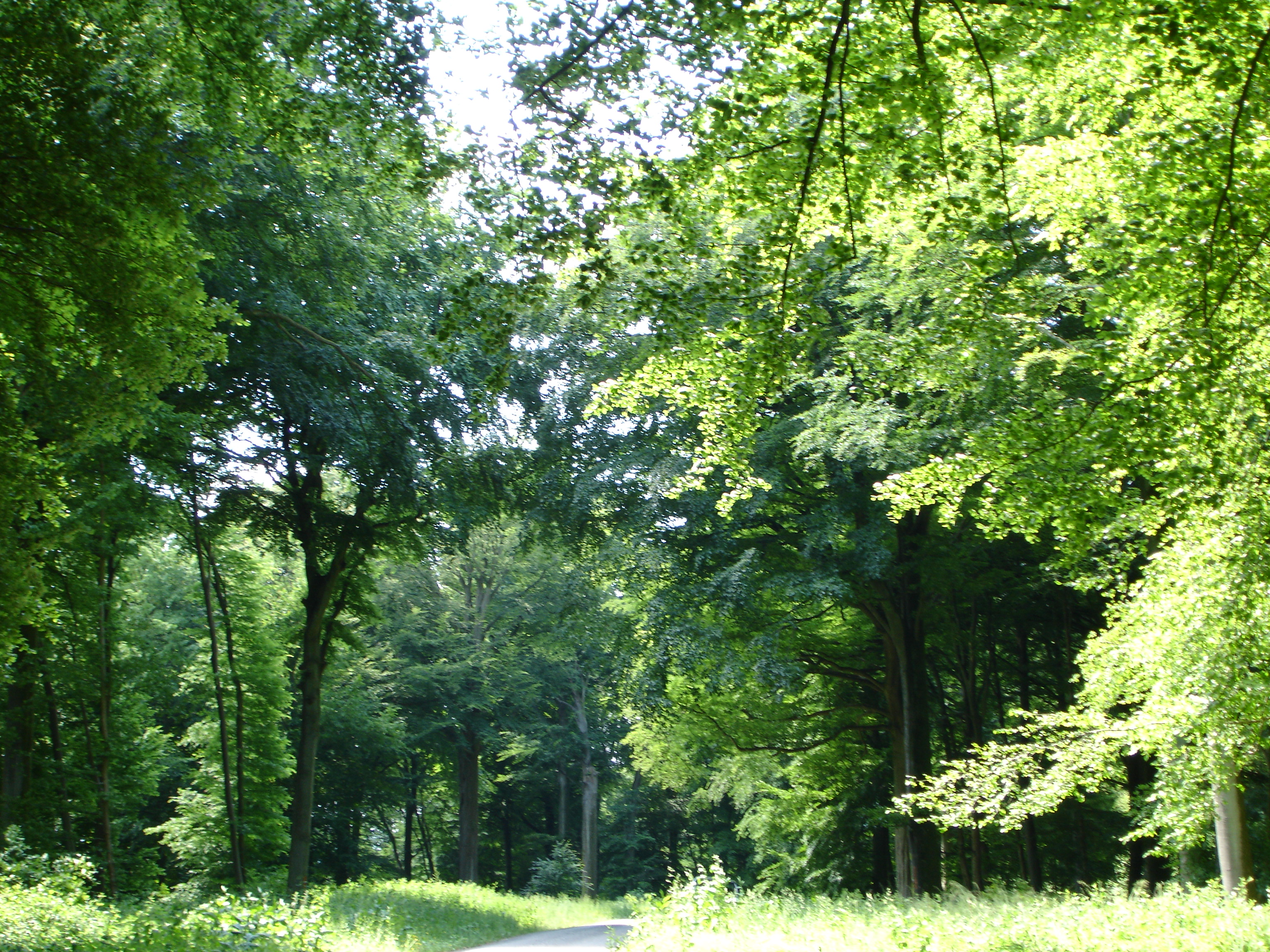 Species variety of Hesdin forest in the underwood sector of la Jatte